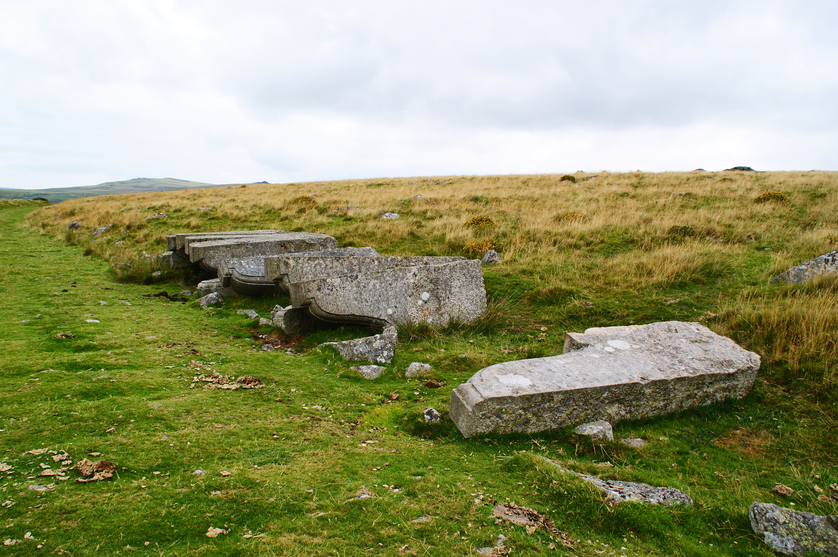 Spare corbels for London Bridge from the quarry where they were cut, ready for shipping. The railway line that would have been used is closed. The quarry provided the stone for the bridge at the time of its construction.